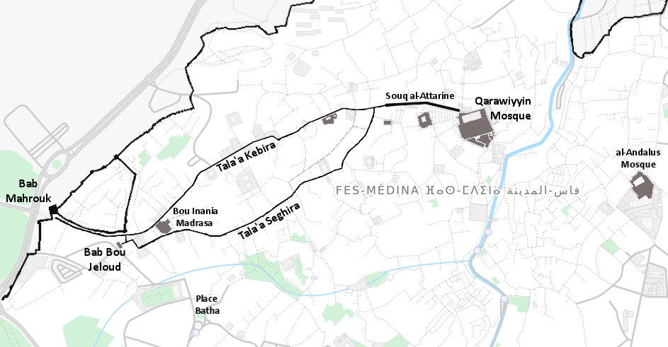 A map of Talaa Kbira and Talaa Sghira streets in Fes el-Bali, with a few key buildings and landmarks highlighted. Base map was taken from OpenStreetMap, and outline of city walls was taken from another map available on Commons (Carte Enceintes de Fes.PNG). I added the labels and highlighted some key buildings. The result is not a work of art, and unfortunately I had to work with a lesser-resolution version, but hopefully it can serve as a placeholder while a better map is created in the future (suggestions for open-source maps welcome).